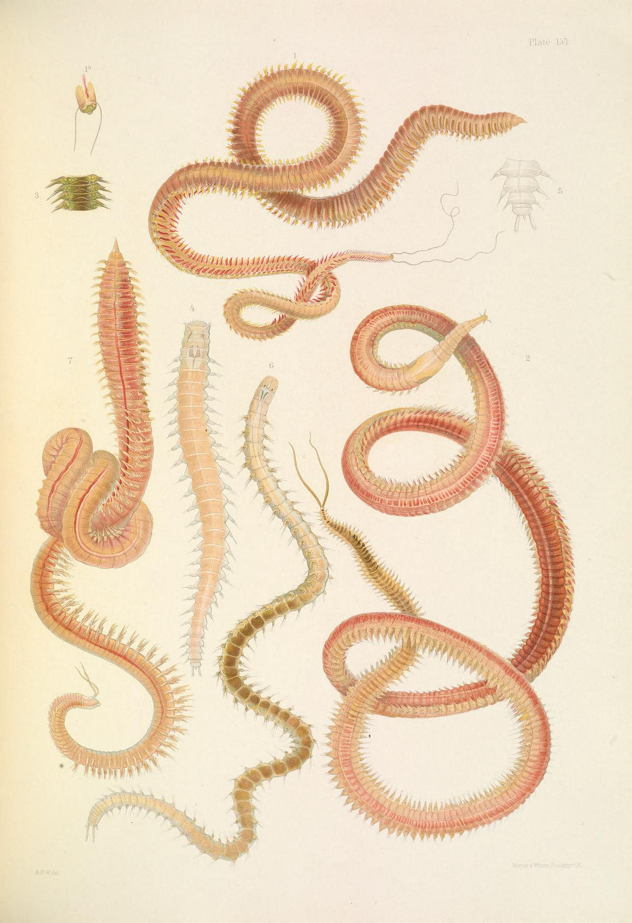 A monograph of the British marine annelids 1910 LVI Plate text 1 Staurocephalus rubrovittatus = Dorvillea rubrovittata (Grube, 1855) Dorvilleidae 2 Staurocephalus kefersteini = Protodorvillea kefersteini (McIntosh, 1869) Dorvilleidae 3 Lysidice punctata Grube, 1855 Eunicidae 4 Glycera lapidum Quatrefages, 1866 Glyceridae 5, 6 Marphysa bellii (Audouin & Milne Edwards, 1833) Eunicidae 7 Nematonereis 9 Ophryotrocha puerilis Claparède & Mecznikow, 1869 Dorvilleidae